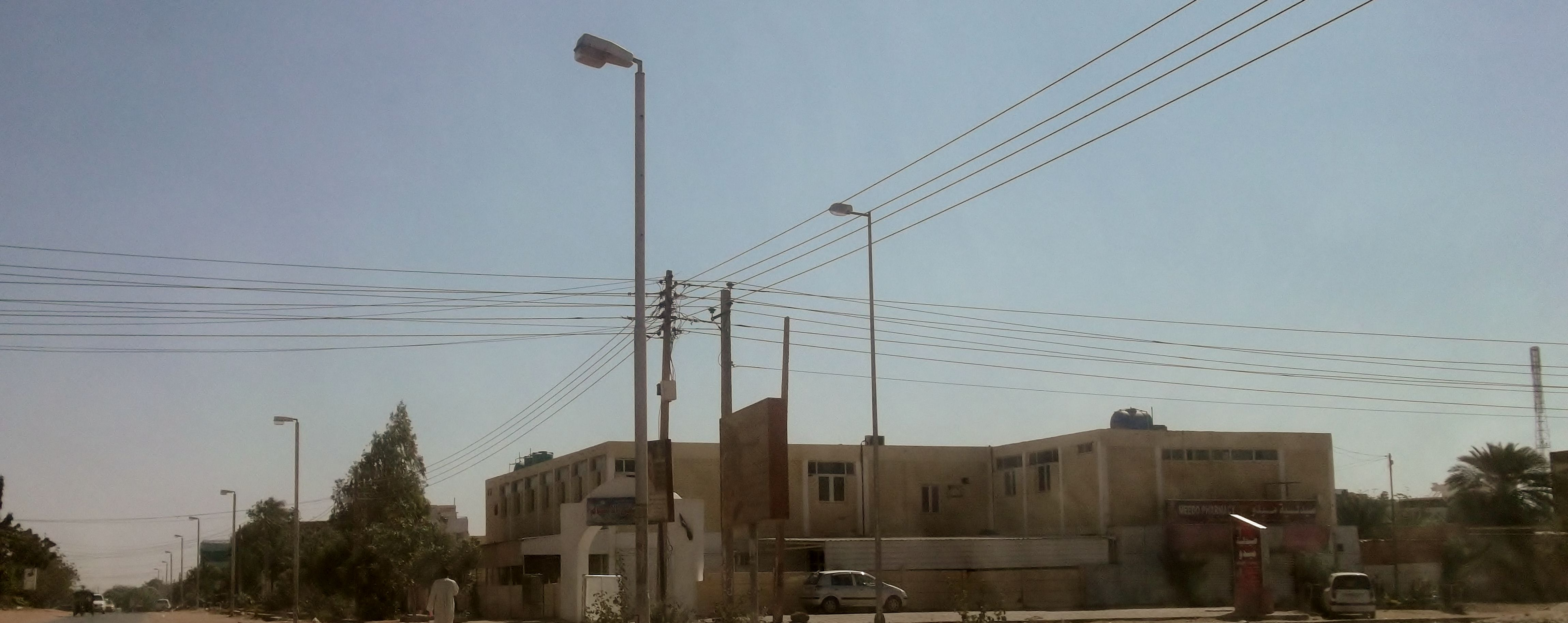 Al Imam hospital - Almolazmeen – Omdurman - Sudan